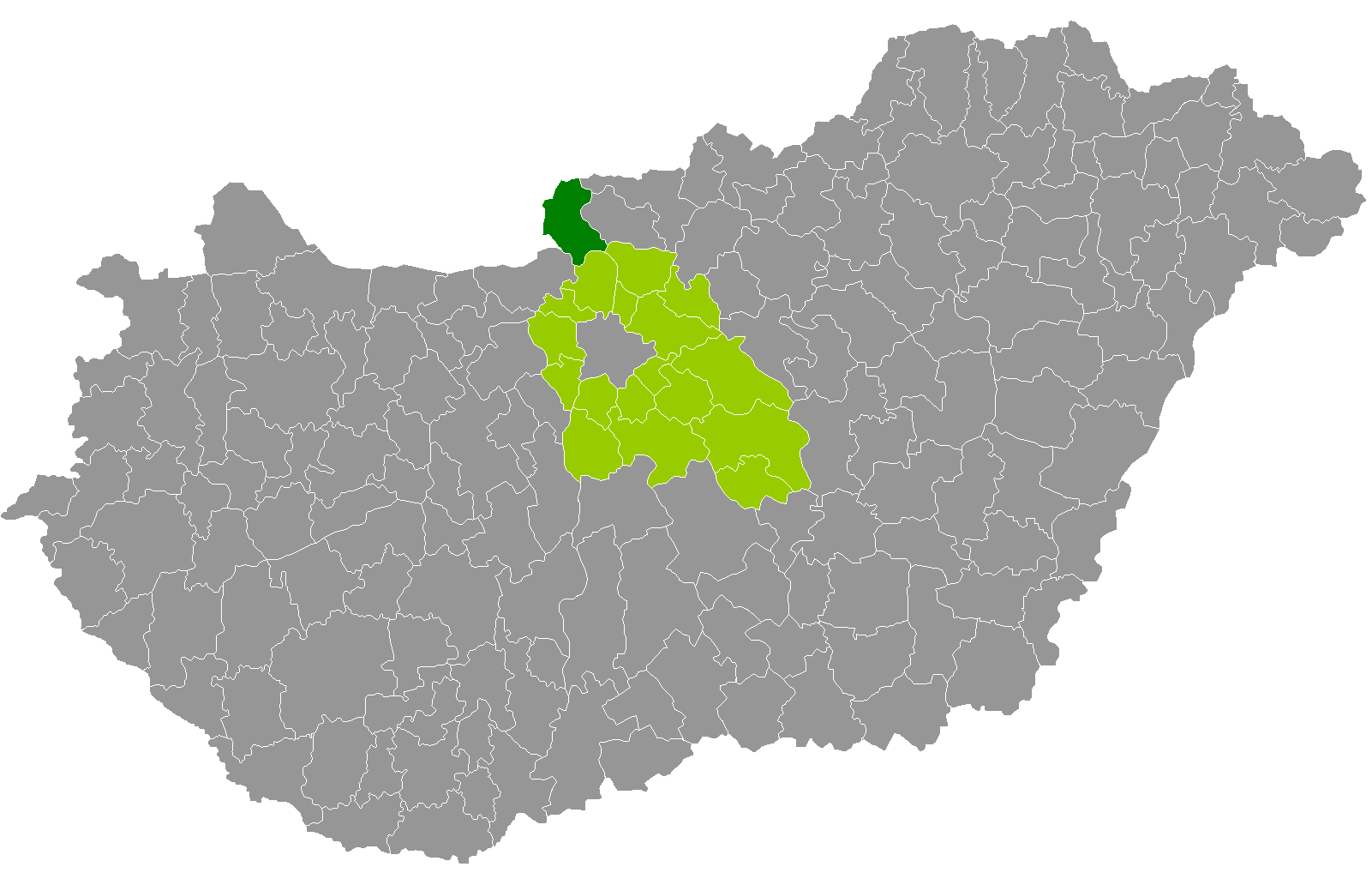 Location of Szob District, Pest, Hungary